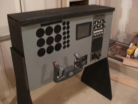 A simpit using various hardware and software to replicate a twin engine prop aircraft.